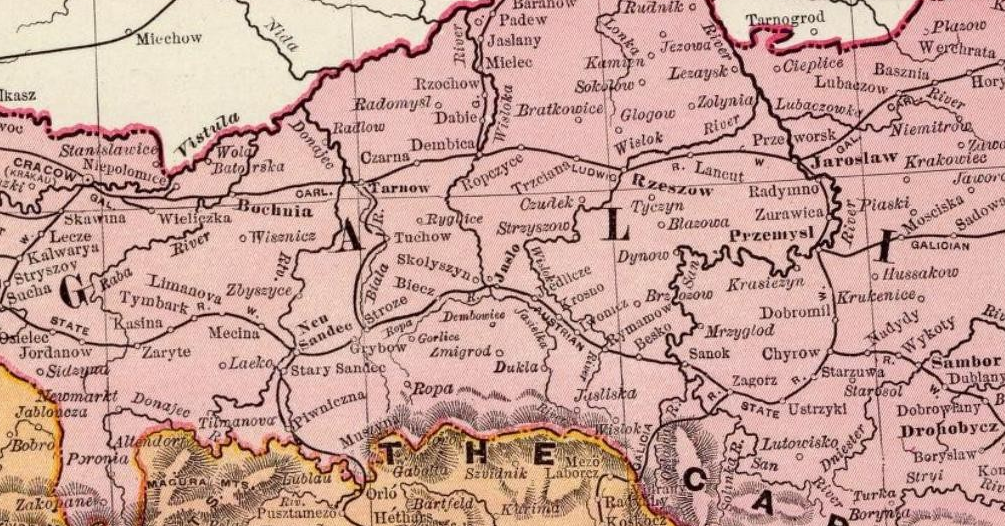 Galician slaughter - General Map